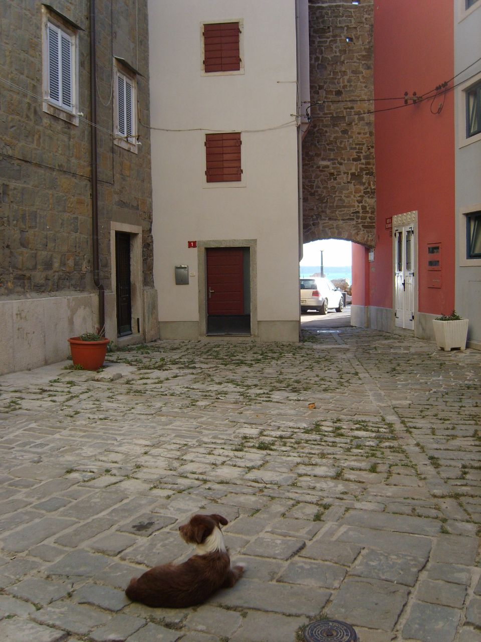 Dog waits in Piran square